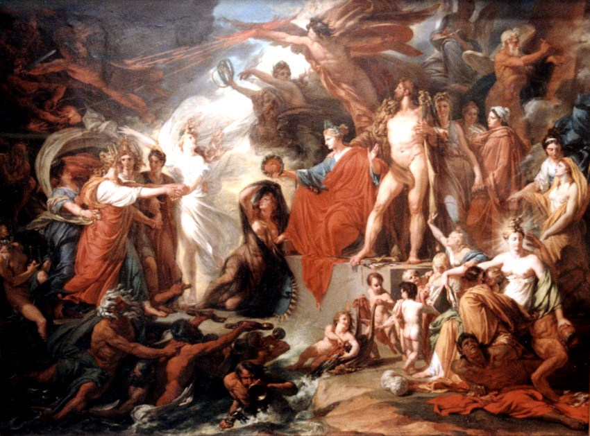 Gods pantheon